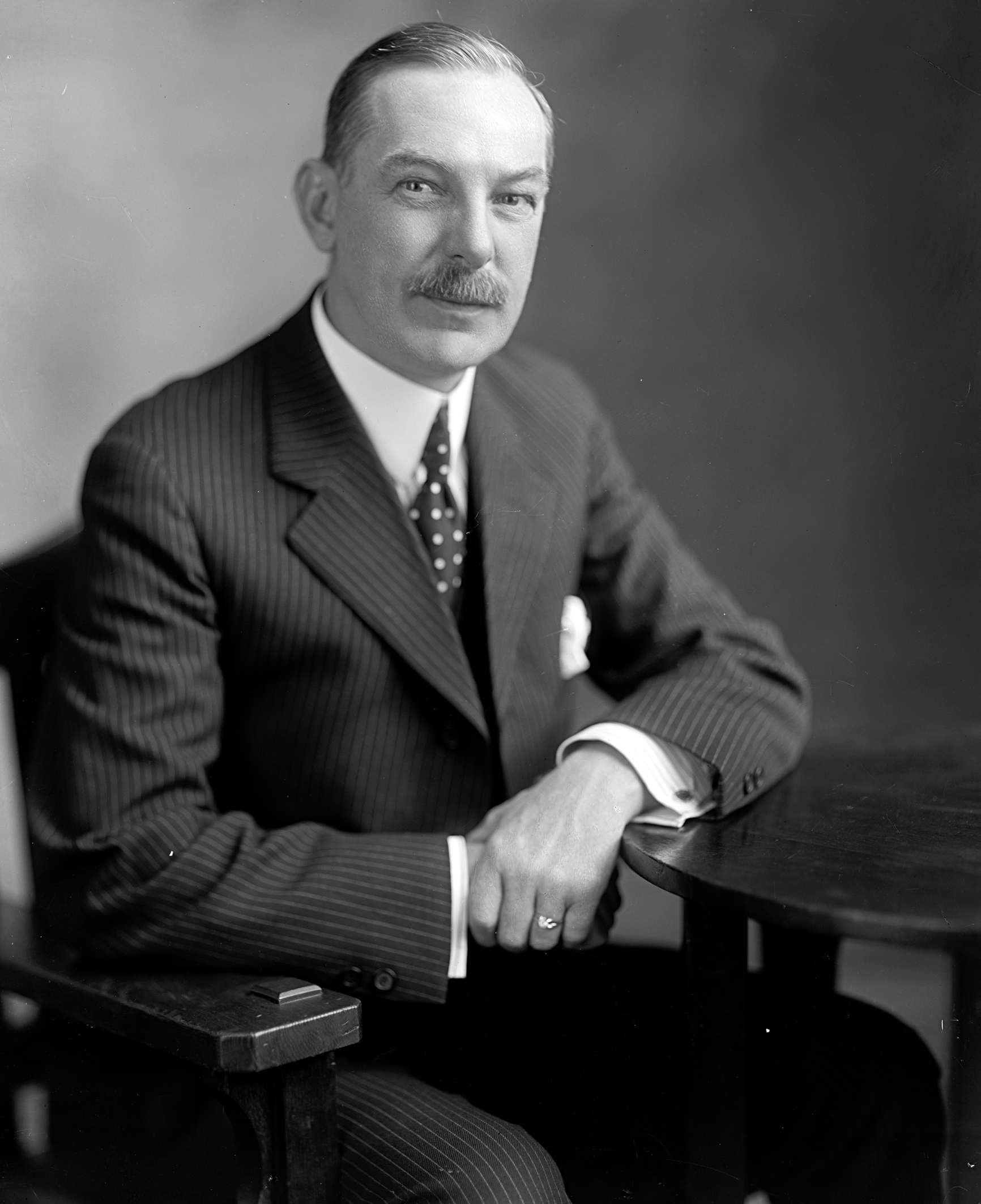 Amos H. Radcliffe, US Representative from New Jersey